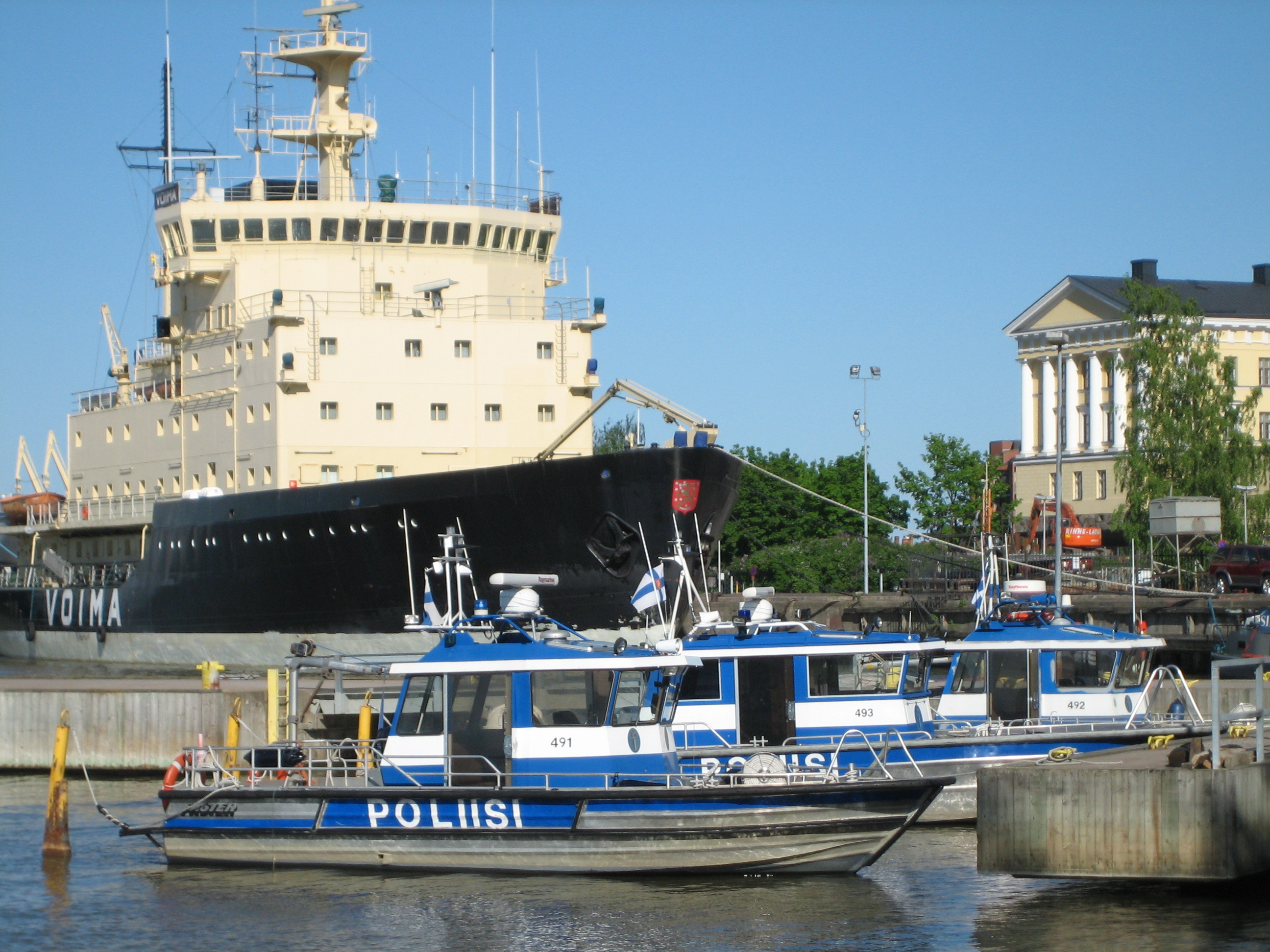 Helsinki Police Dept's patrol Boats in front of ice breaker Voima at Katajanokka, Helsinki, Finland. Three patrol boats of Helsinki Police Department docked at Katajanokka in Helsinki, Finland. The boats are Faster 840 and Faster 940 -type aluminum boats with waterjet propulsion systems. These boats patrol on the coast of the Finnish capital, Helsinki. Behind the patrol boats is docked the oldest ice breaker actively still used in Finland, Voima. This ice breaker was built in 1954 and in 2007 it still worked with more modern ice breakers. The yellow building is part of the Finnish Ministry for Foreign Affairs.